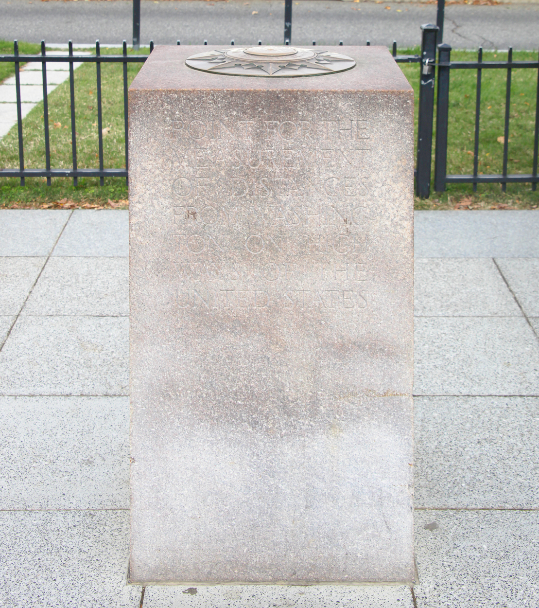 The Zero Milestone on The Ellipse, on the south side of the White House in Washington, D.C., in the United States.